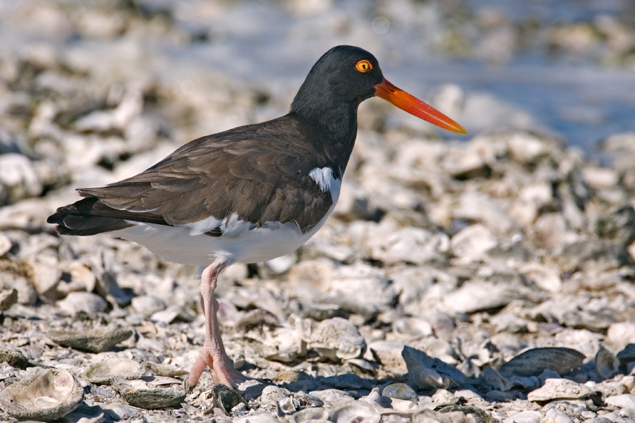 American Oystercatcher (Haematopus palliatus), Ayers Bay "Second Chain" Near Matagorda Island, Texas